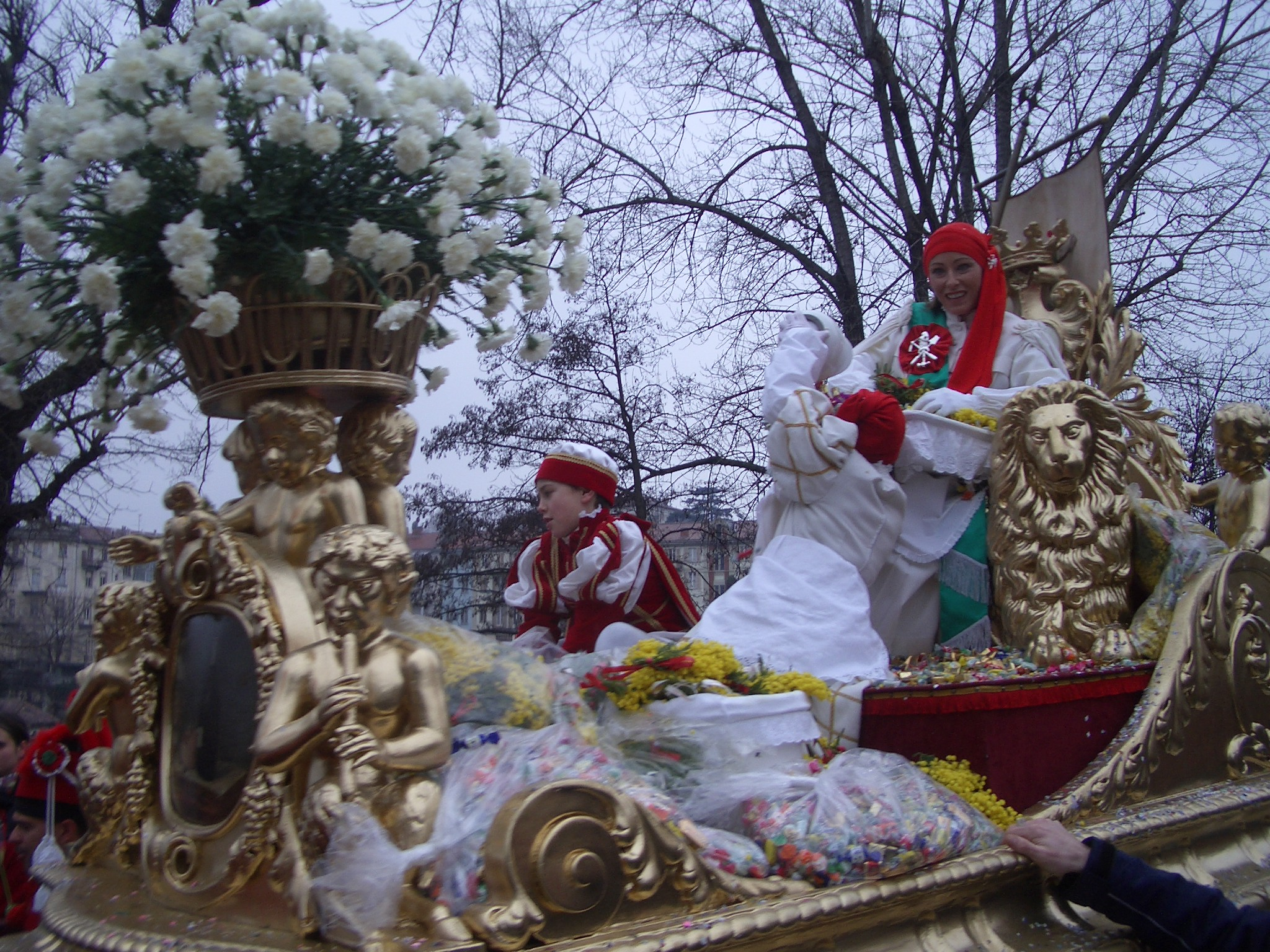 Carnival of Ivrea, La Mugnaia (The miller's daughter, heroine of the carnival)